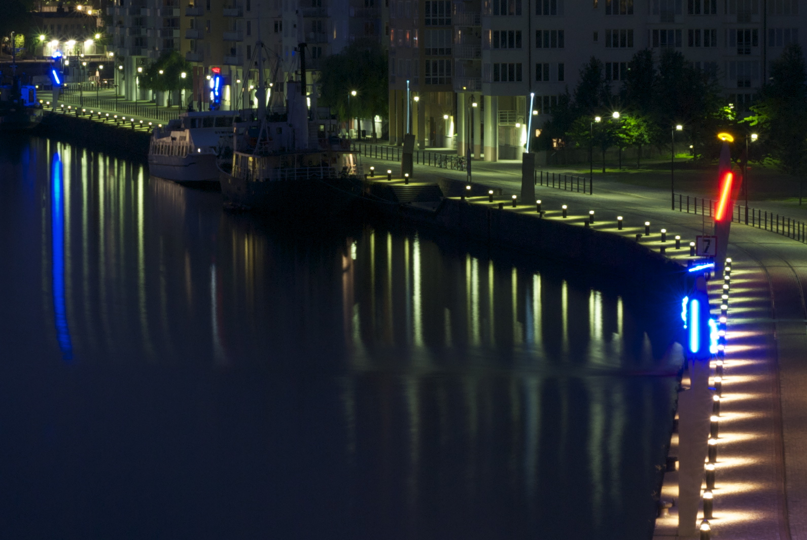 Norra Hammarbyhamnen at night. Sculptures in terazzo, steel, and neon by Gun Gordillo.